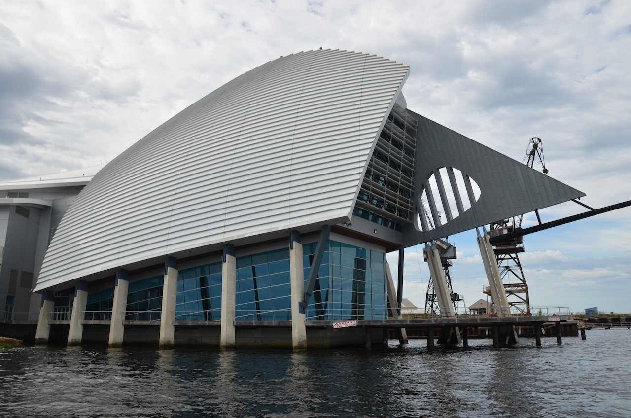 Fremantle harbour meets the museum